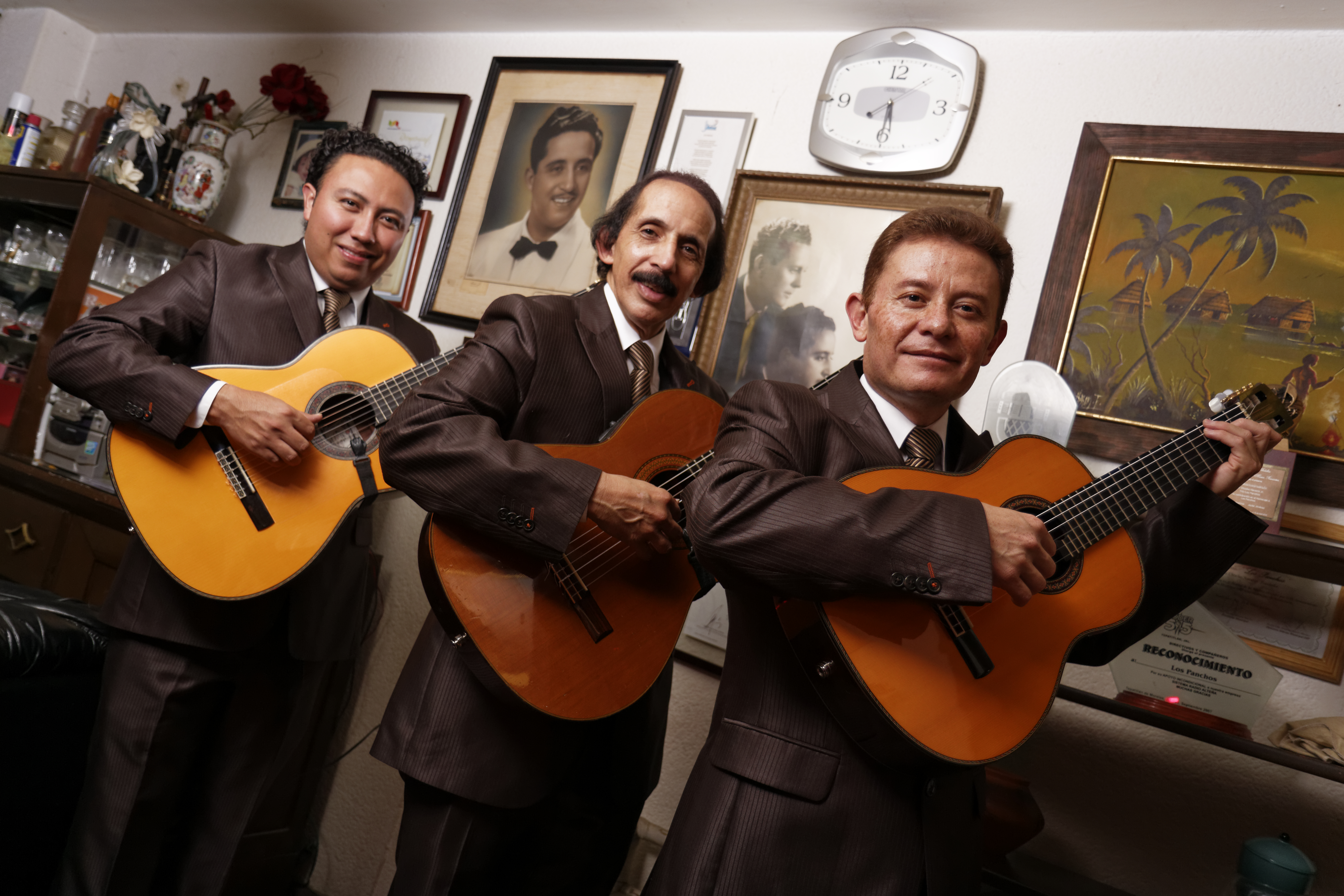 Director Chucho Navarro Jr. the legitimate heir